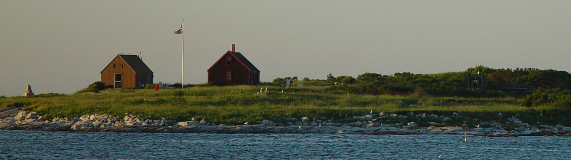 Houses on Smuttynose Island, photograph by Rick Holt